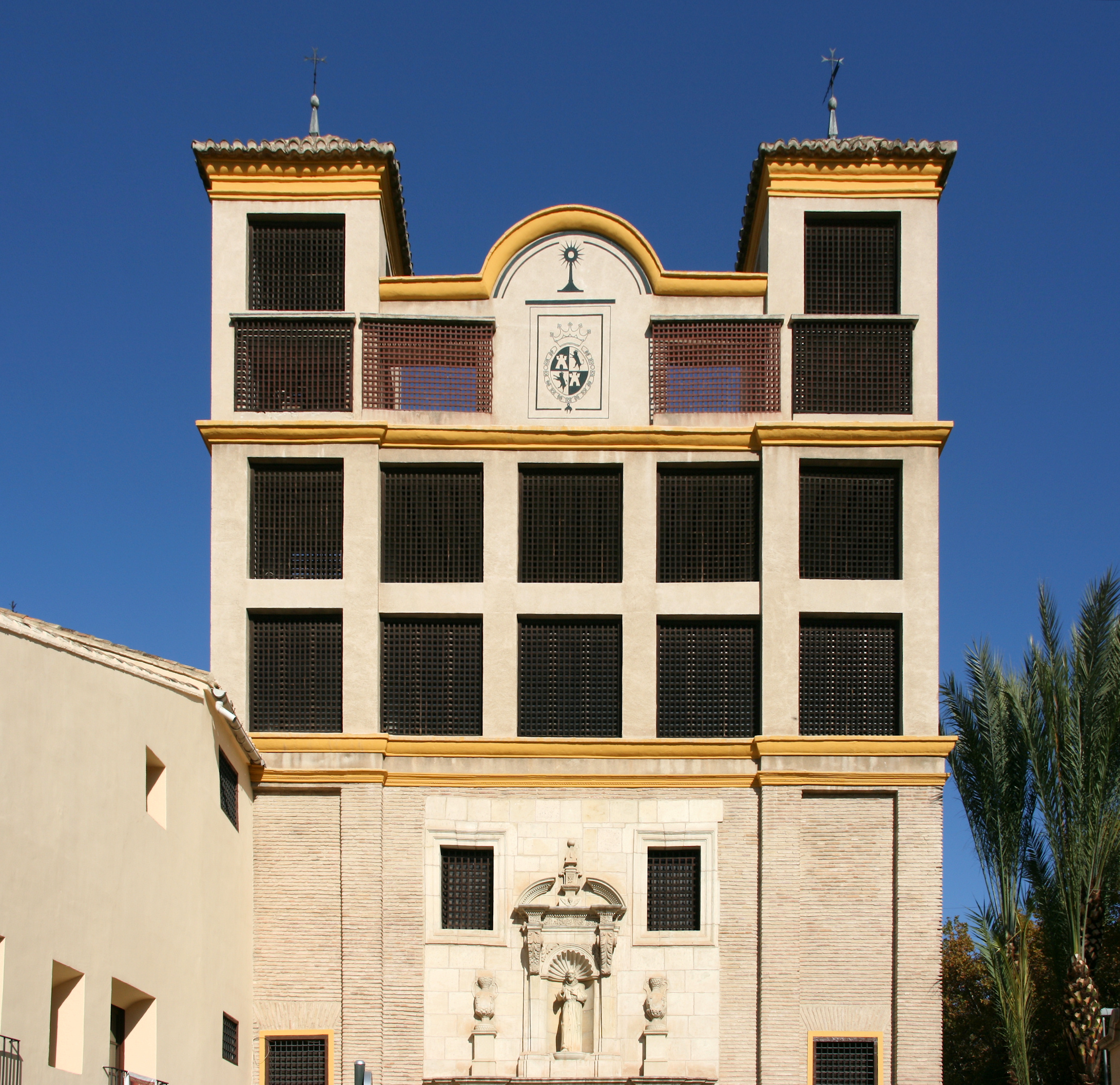 Royal Monastery of Saint Clare in Murcia, Spain.